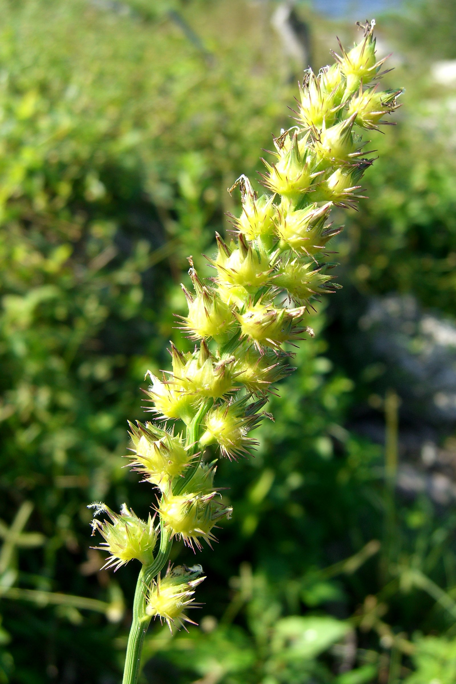 Scientific Name: Cenchrus echinatus L. Common Name: Southern Sandbur Certainty: positive (notes) Location: Florida Keys; Middle Keys; Pigeon Key Date: 20061228